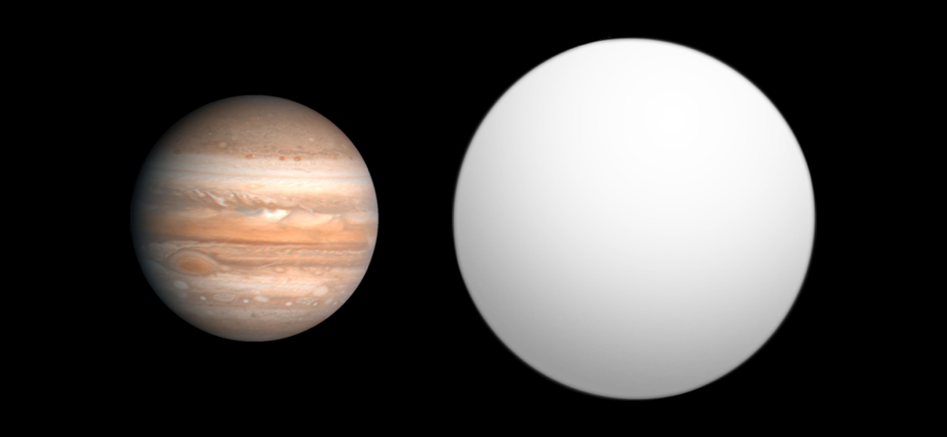 Comparison of best-fit size of the exoplanet CoRoT-2 b with the Solar System planet Jupiter, as reported in the Open Exoplanet Catalogue[1] as of 2015-11-14. ↑ Open Exoplanet Catalogue (2015-11-14). Retrieved on 2015-11-14.